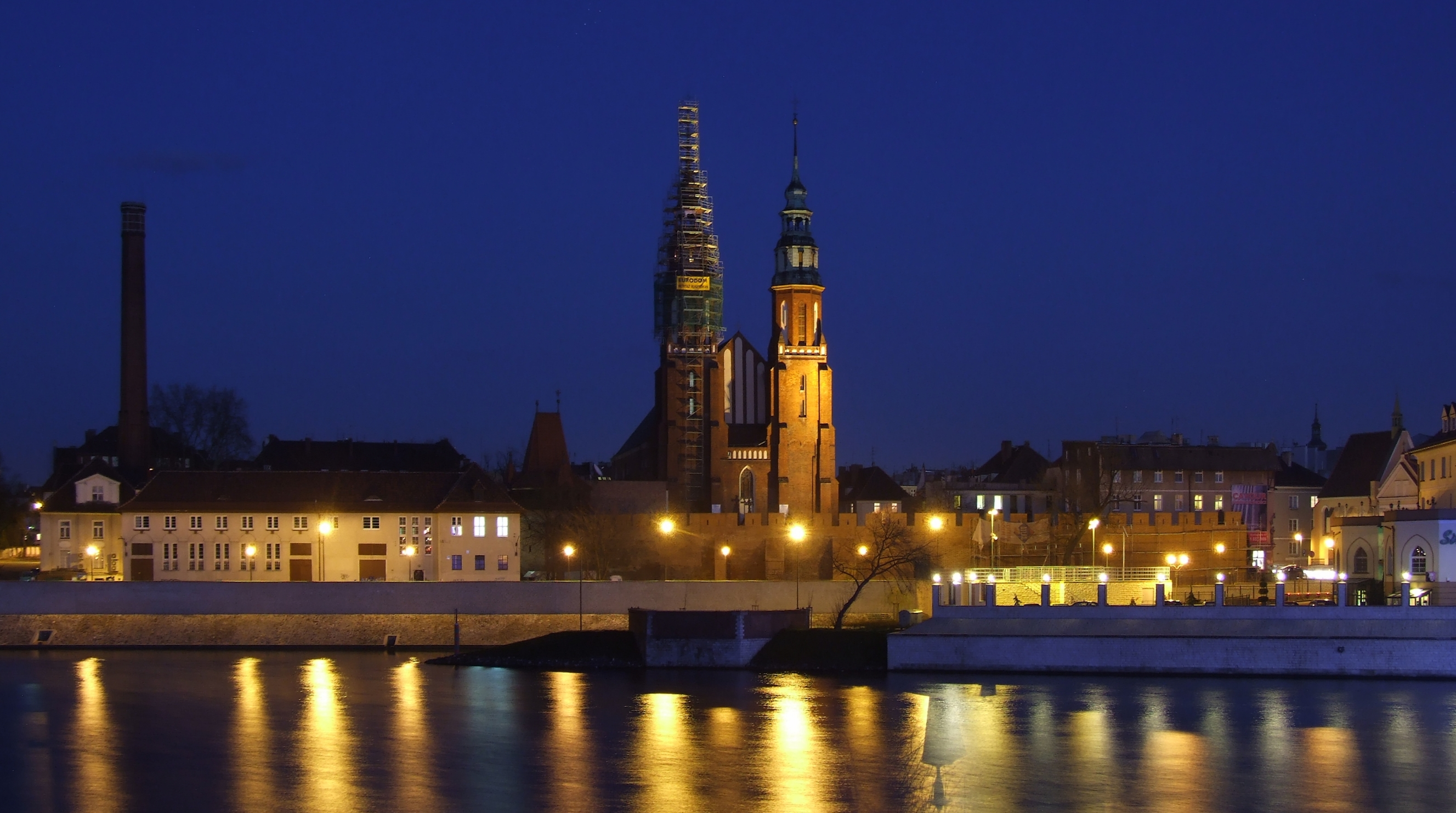 Opole (Oppeln) by night